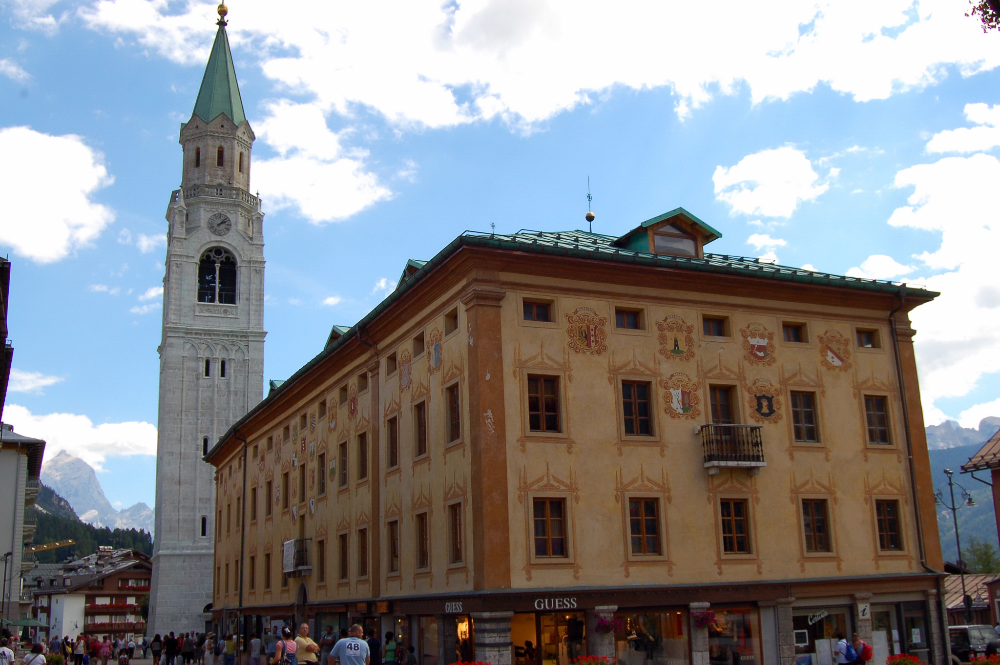 Italy - Church of Cortina d' Ampezzo